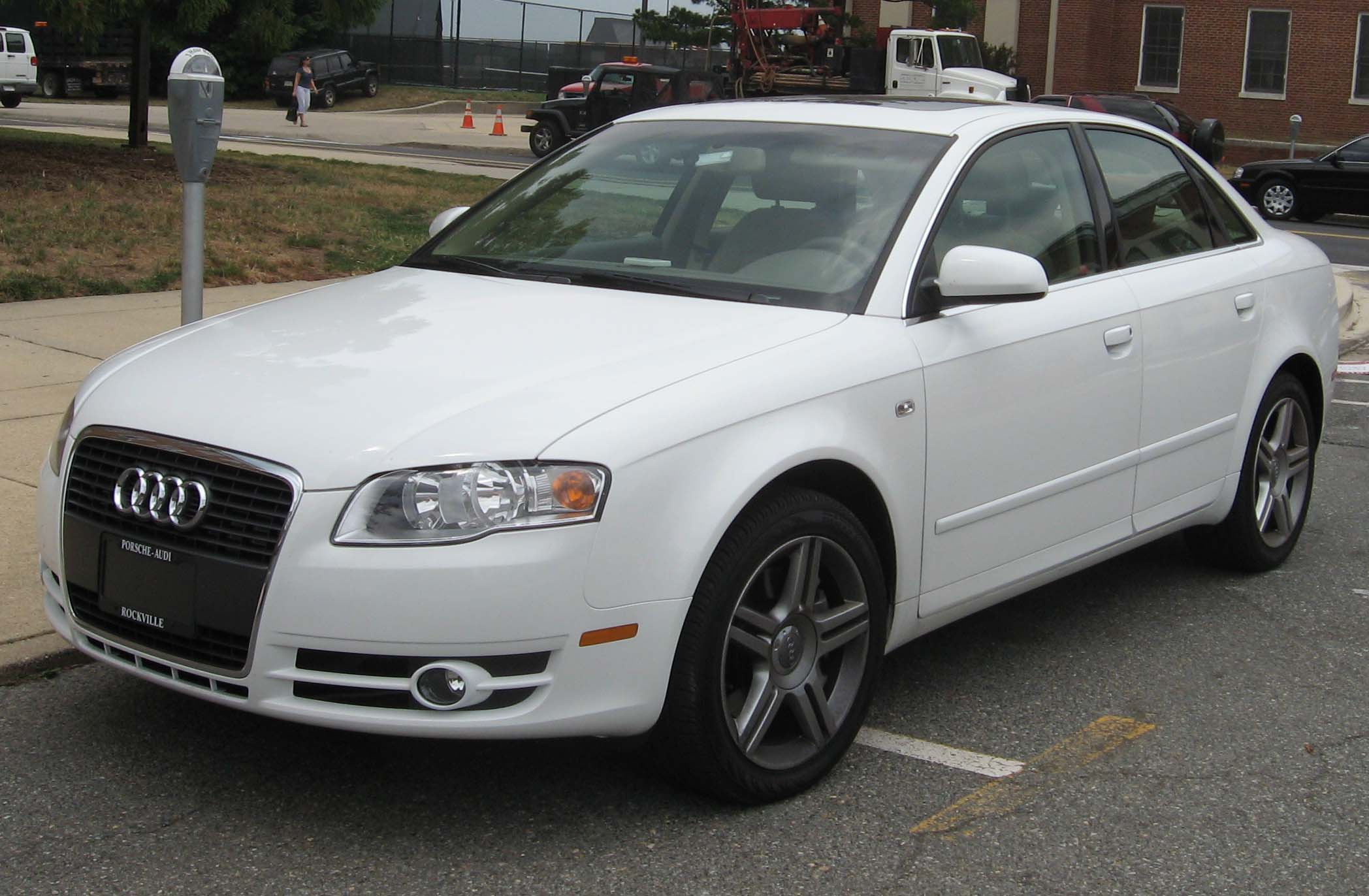 2005-2007 Audi A4 photographed in USA.